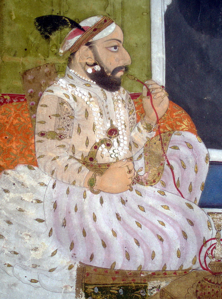 Maharana Sangram Singh receives a nobleman, Mewar c. 1720-30.